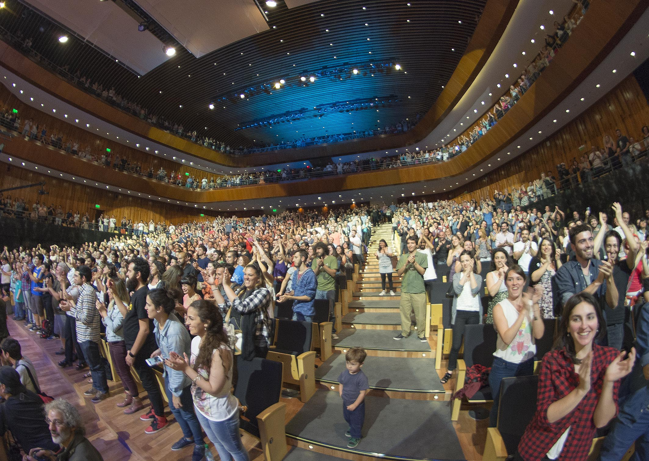 Homenaje a Luis Alberto Spinetta en la sala La Ballena Azul del Centro Cultural Kirchner (CCK) para celebrar su obra con el espectáculo “Spinetta: Tu vuelo al fin”.Fotos: Carlos Furman y Rodrigo Ciancia / CCK